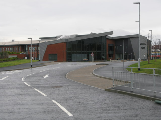 Chryston High School and Cultural Centre